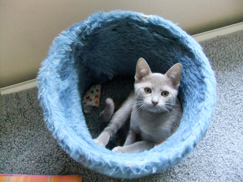 12-week old Thai Lilac kitten from the Maipenrai line on the Isle of Man. Breeder: Janet Jeffers